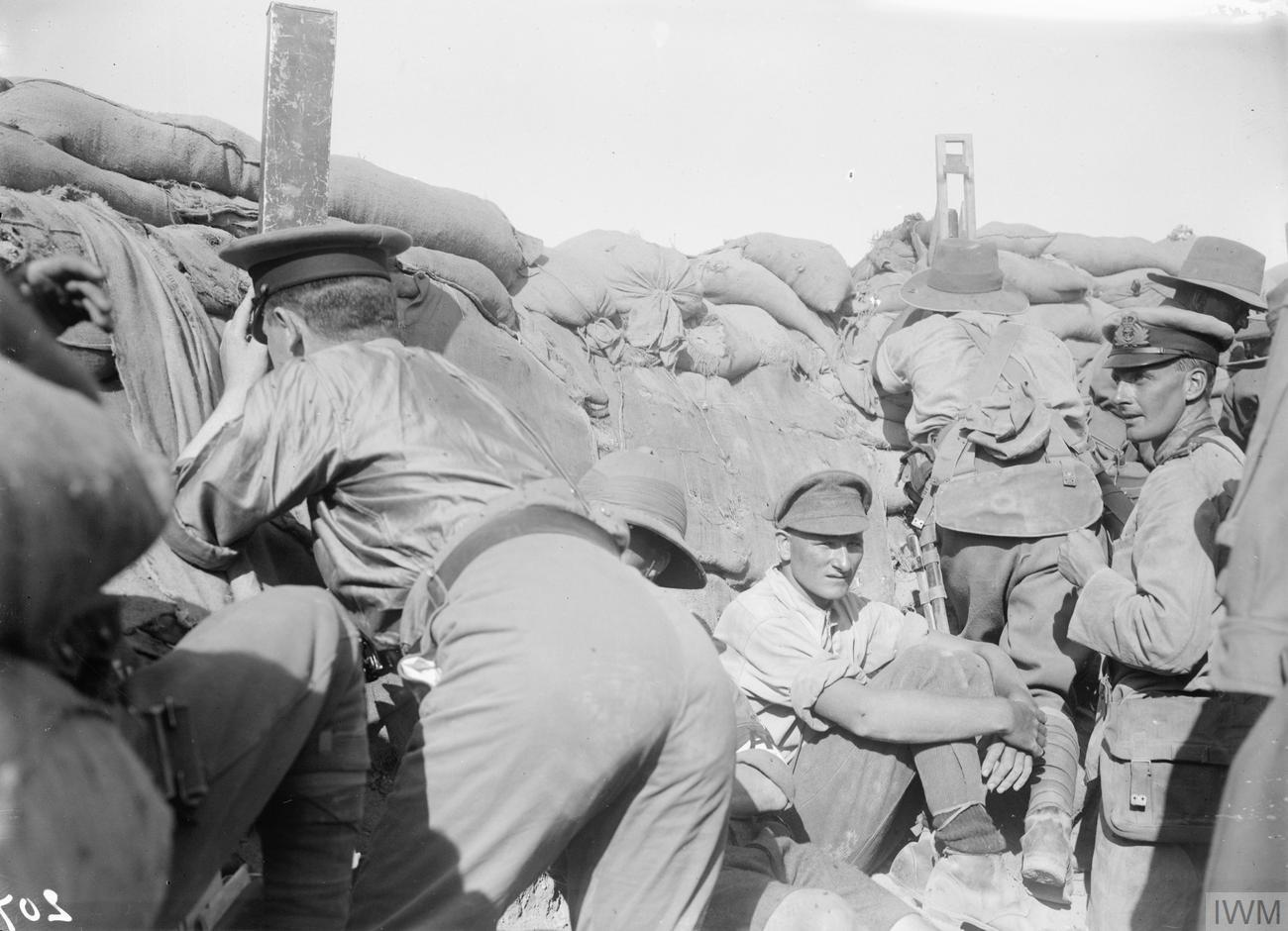 Defence of ANZAC. Scene in a trench during the period 28th April - 12th May, when the Marine and 1st Naval Brigades of the Royal Naval Division reinforced the Australian and New Zealand Army Corps in the area about what were later known as Quinn's and Courtney's Posts. The Marines brought a few periscopes with them, and the Australians improvised a supply from looking-glasses sent ashore from transports.